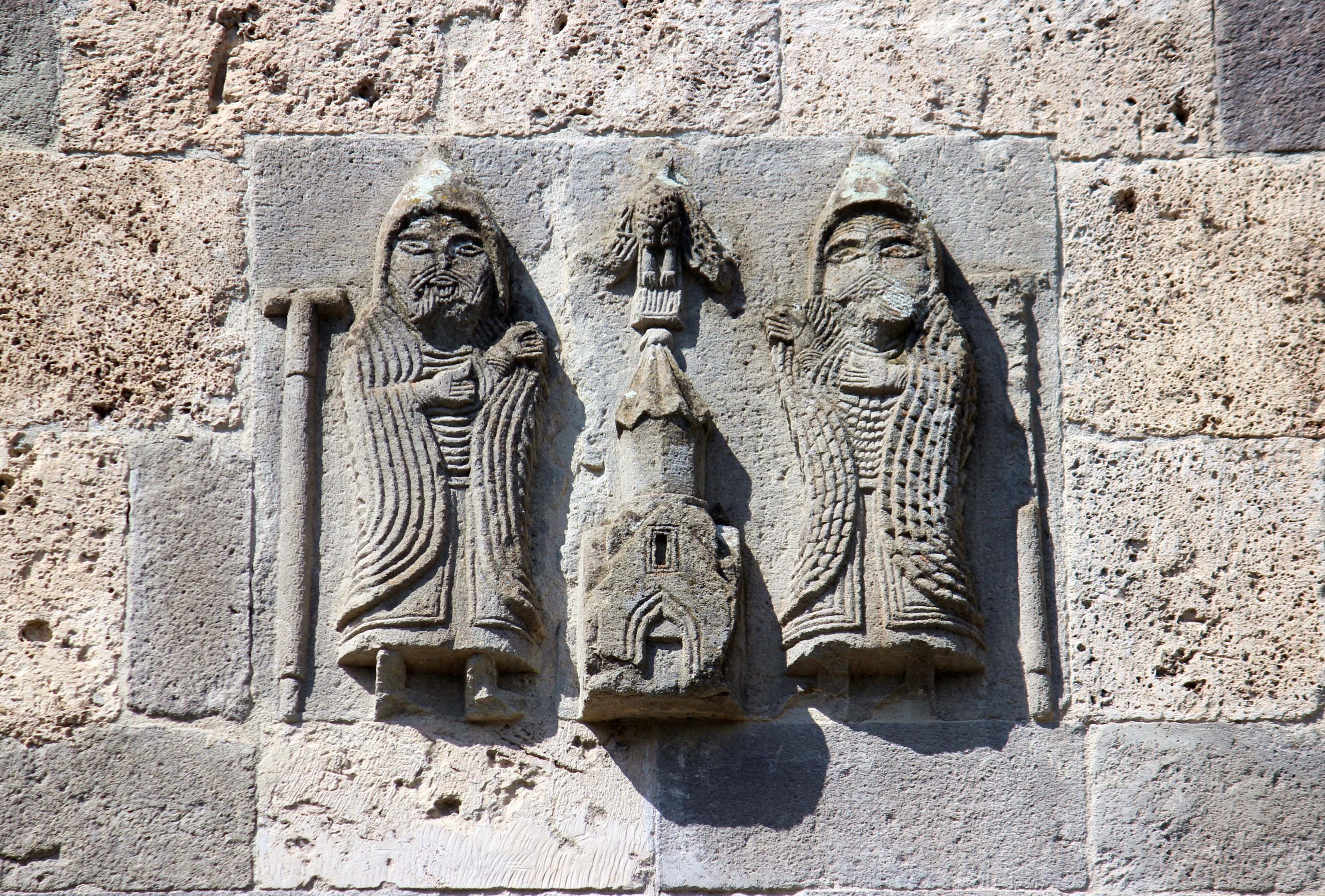 Low-relief depiction of the Zakaryan brothers, patrons of Haghartsin Monastery (1281) on the upper east exterior wall of S. Astvatatsin Church.